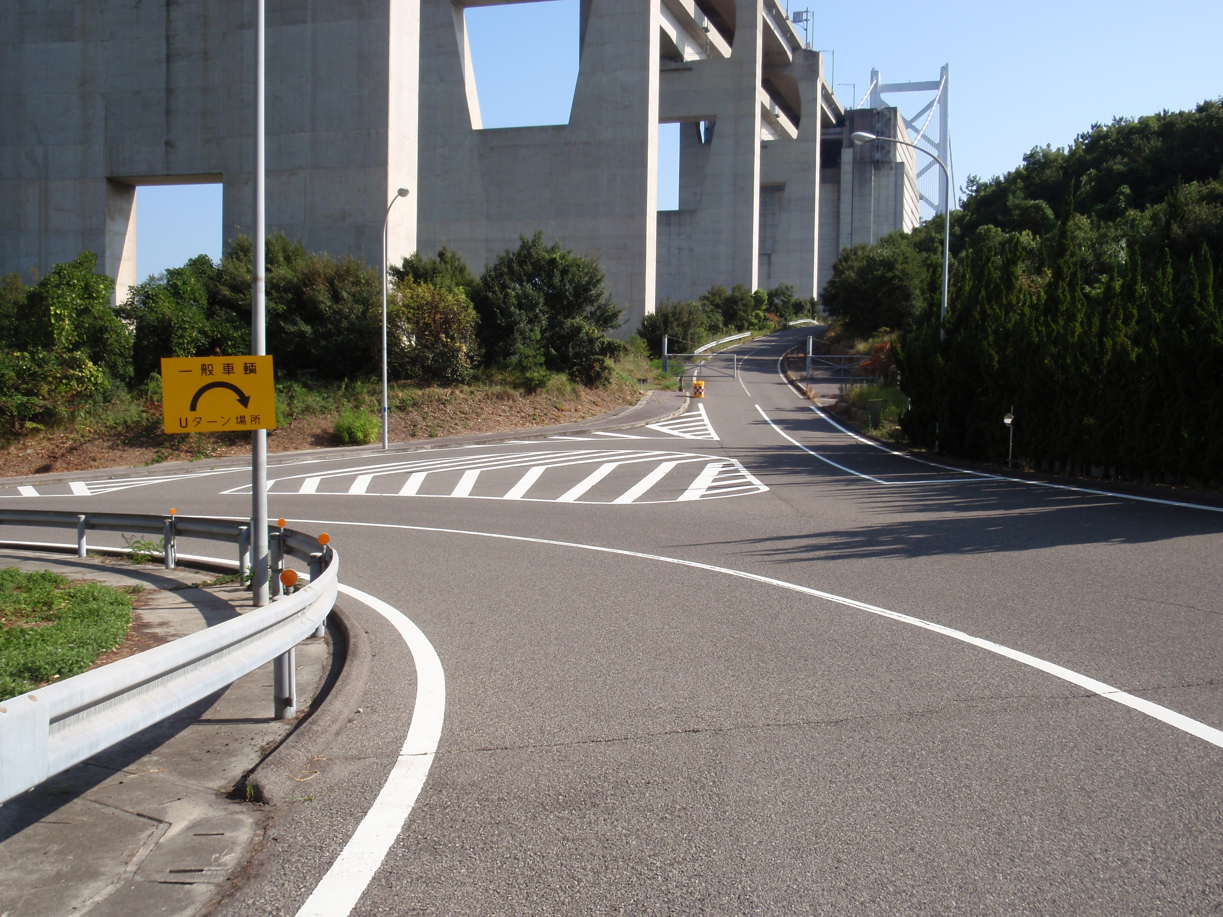 U-turn lane at Yoshima Interchange